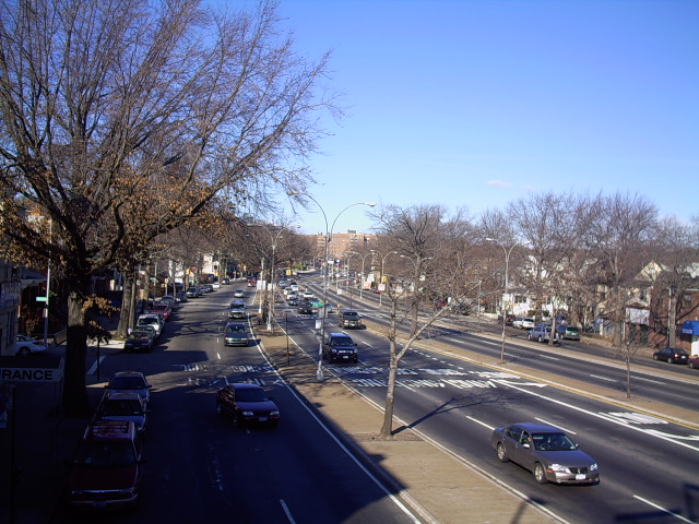 Woodhaven Boulevard in Woodhaven, Queens NY. Picture taken from the Woodhaven Boulevard train station.